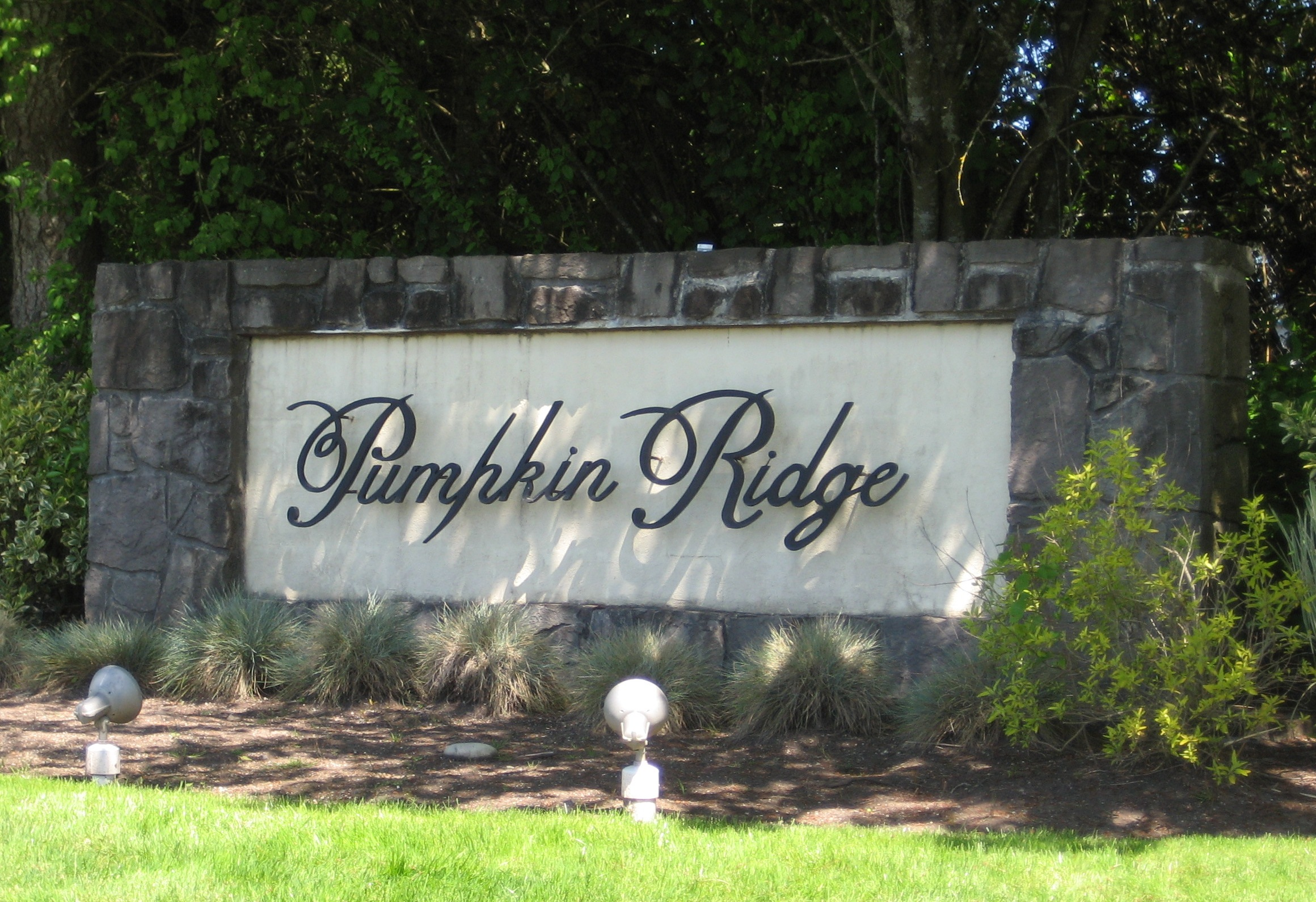 Pumpkin Ridge Golf Club entrance near North Plains.